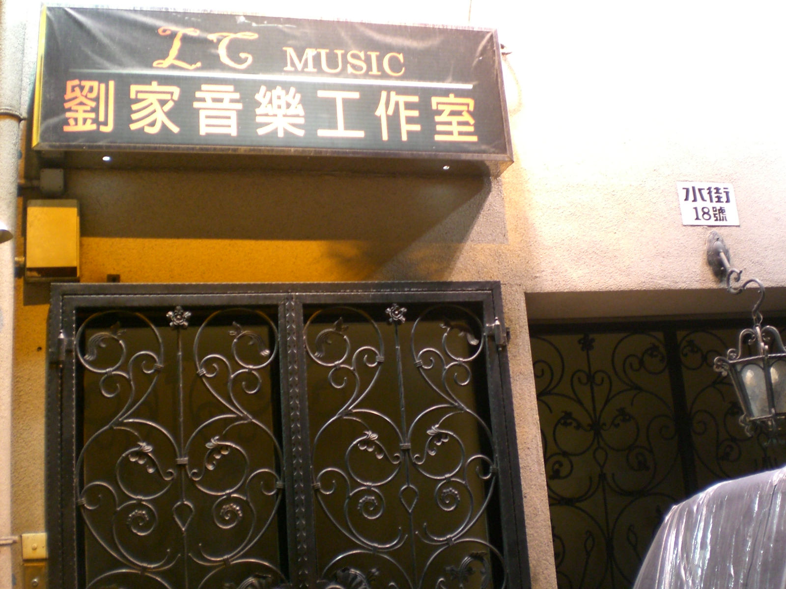 劉家昌之音樂室位於zh:香港島水街18號. Author= Sammi Tunkarly